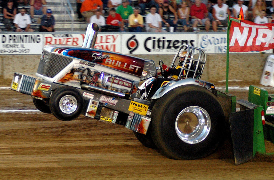 The rides on the midway just don't measure up...